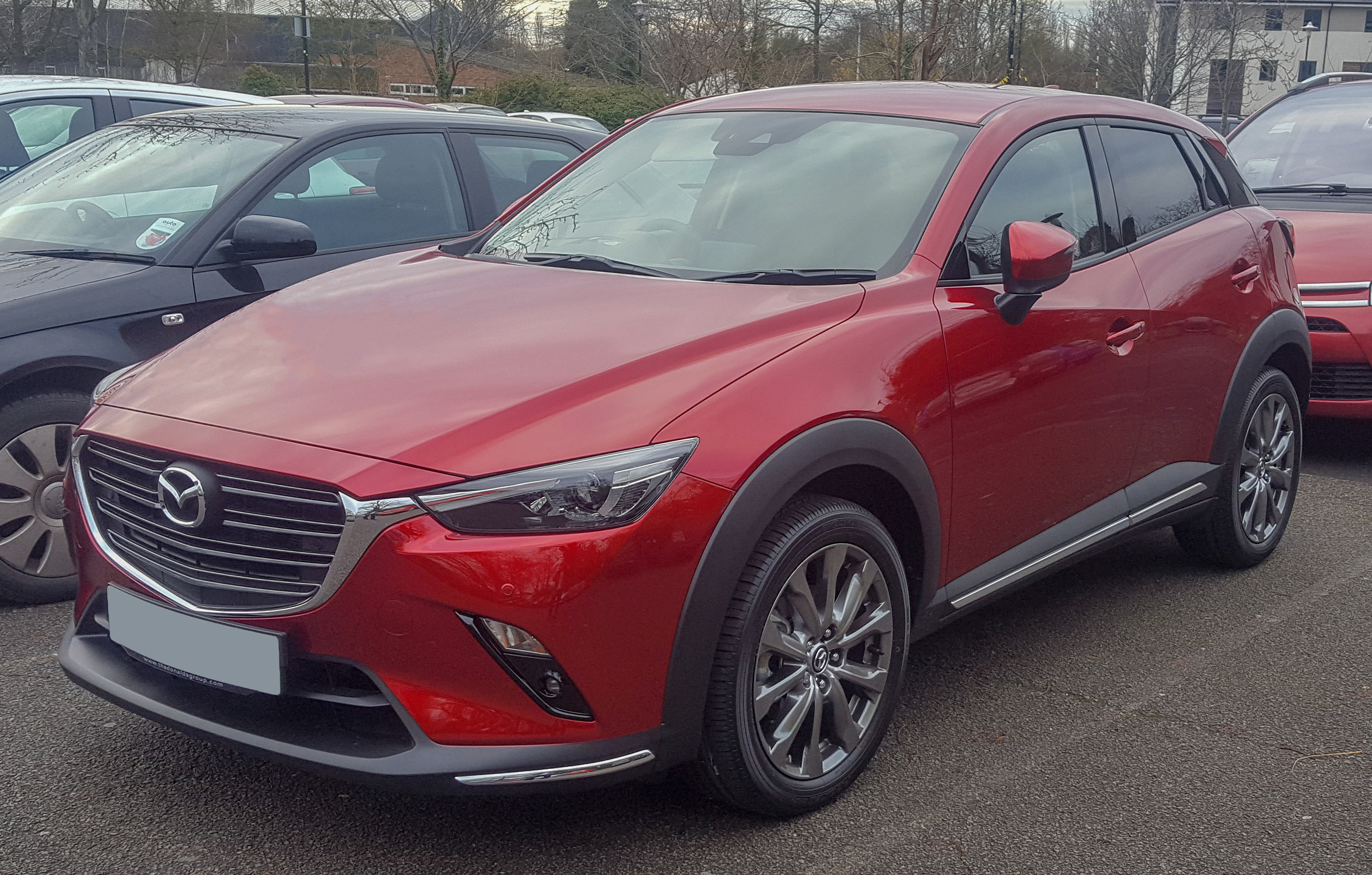 2018 Mazda CX-3 Sport Nav+ 4X4 2.0 Front Taken in Leamington Spa